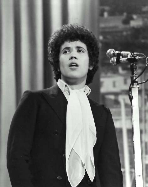 The Italian singer-songwriter Lucio Battisti on stage during the 19th Sanremo Music Festival with the song Un'avventura.